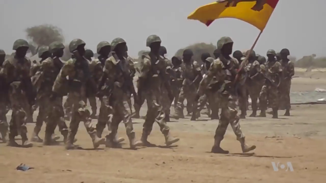 For the first time in years, the Nigerian Army conducted military drills in the Sambisa Forest which previously had been a stronghold for Boko Haram. For VOA, Hussaina Muhammad was given a rare access to the exercises in Maiduguri. Salem Solomon has the report. Flag of the 3 Division (Red and Yelllow)